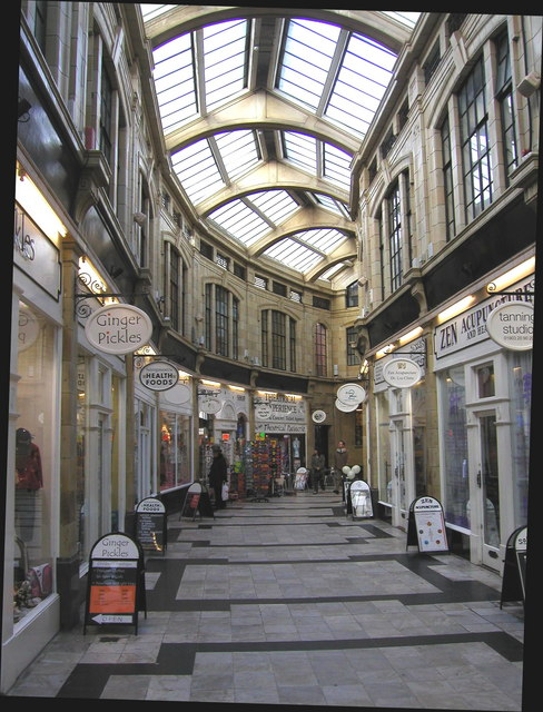 The Arcade on the corner of Montague Street & South Street Beautiful classic shopping arcade